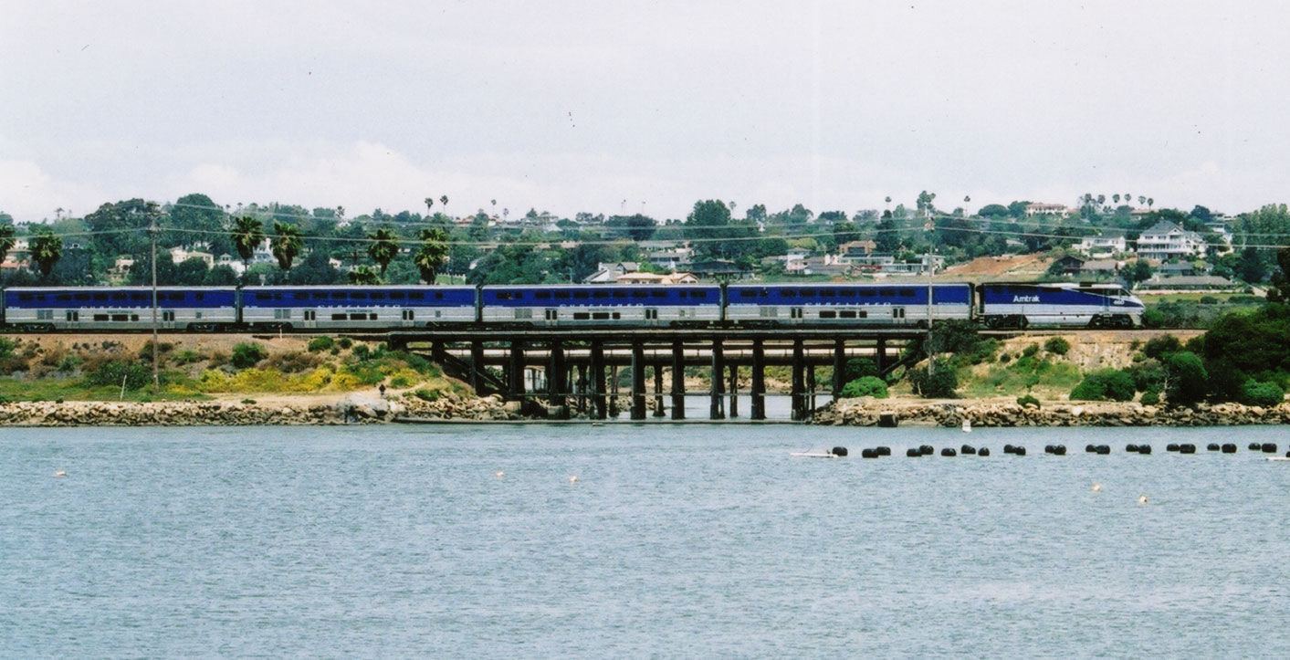 Southbound Pacific Surfliner train crosses the mouth of Agua Hedionda Lagoon in Carlsbad, San Diego County, Southern California.